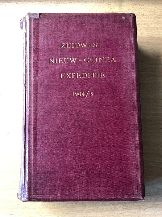 Rouffaer, G.P. et al.: De Zuidwest Nieuw-Guinea-Expeditie, 1904-5, Kon. Ned. Aardrijkskundig Genootschap, Leiden E. J. Brill, 1908 - Front cover.